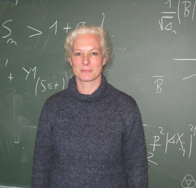 Description at MFO: On the Photo: Ditlevsen, Susanne Dalager * Occasion:Oberwolfach Seminar: Statistics for Stochastic Differential Equations * Location: Oberwolfach * Author: Schmid, Renate (photos provided by Schmid, Renate) * Source: MFO * Year: 2011 * Copyright: MFO * Photo ID: 14788